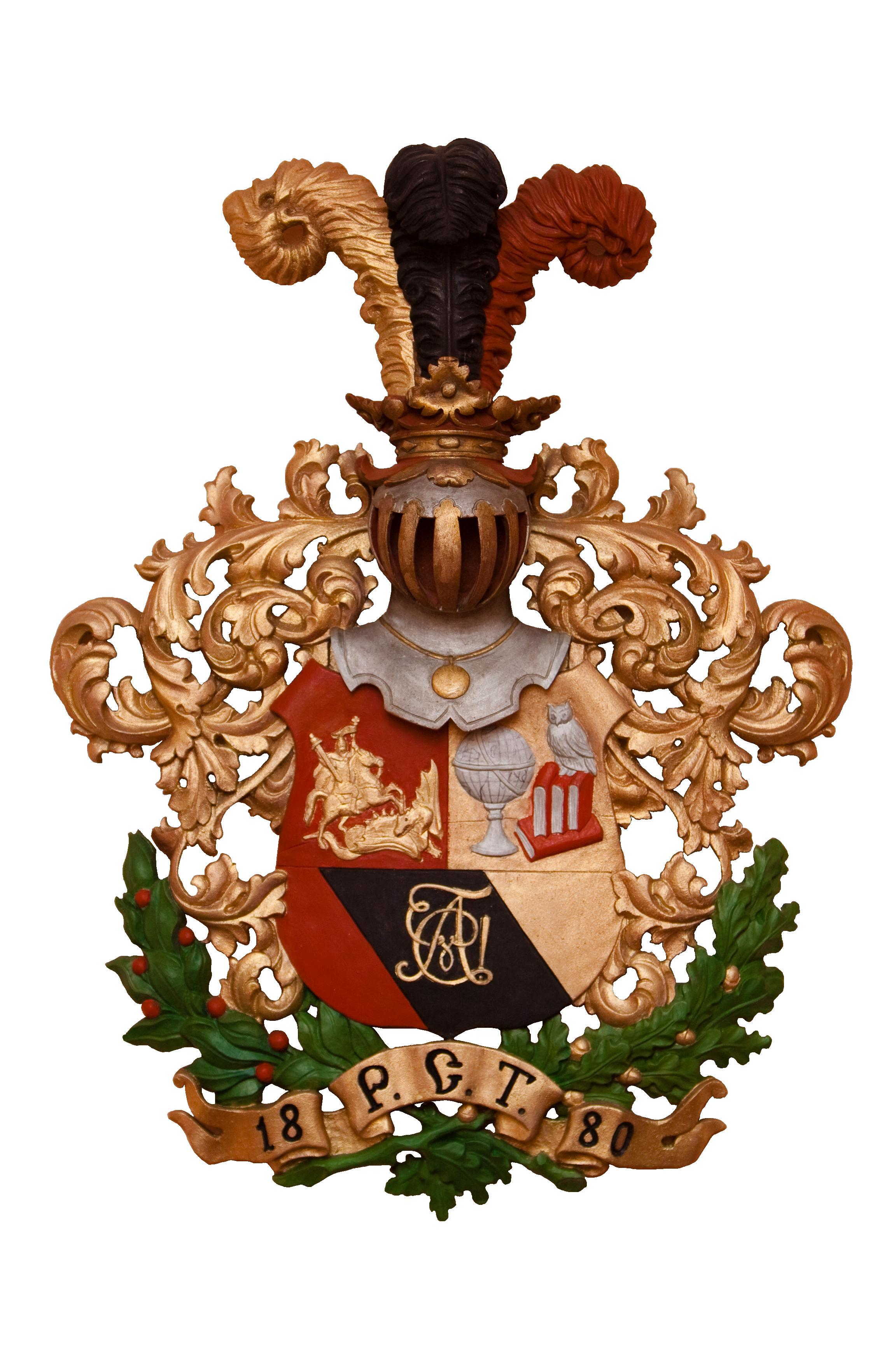 Fraternitas Arctica Coat of Arms